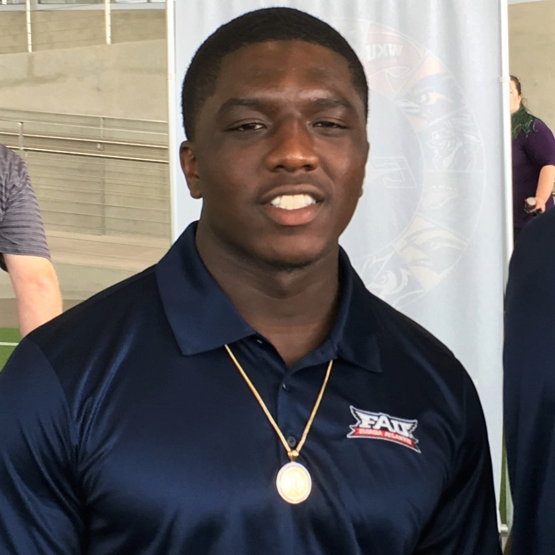 Devin Singletary, running back of the FAU Owls football team, at the 2018 C-USA Kickoff in Frisco, Texas.